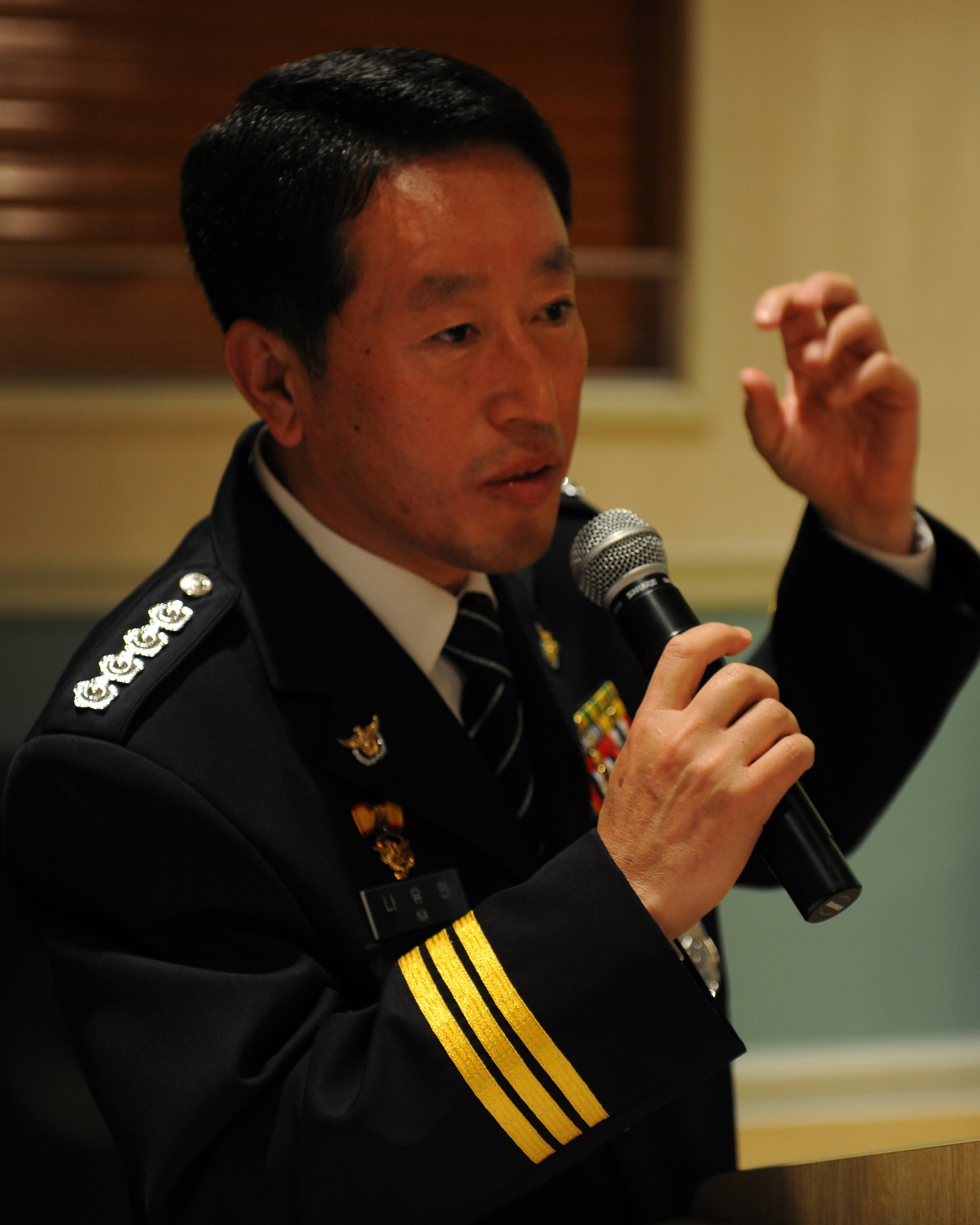 KUNSAN AIR BASE, Republic of Korea -- Chief Na Yu-In, Gunsan Korean National Police chief, addresses 8th Security Forces Squadron Airmen following a lunch at the Loring Club here May 3. Chief Na and Lt. Col. Mark Anarumo, 8th SFS commander, planned the event after they met and found a common bond in education, which they realized could benefit both of their forces. Colonel Anarumo plans to address the Gunsan City police in June.